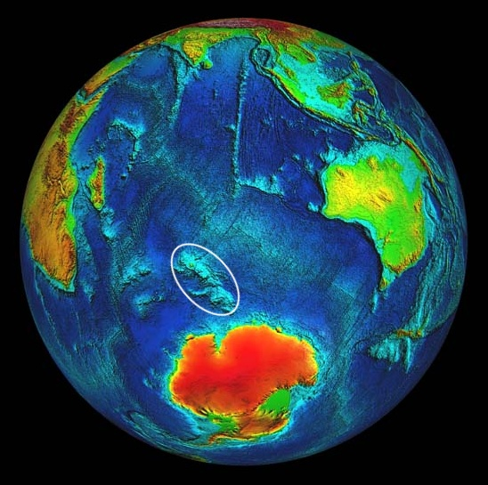 Location of the Kerguelen Plateau